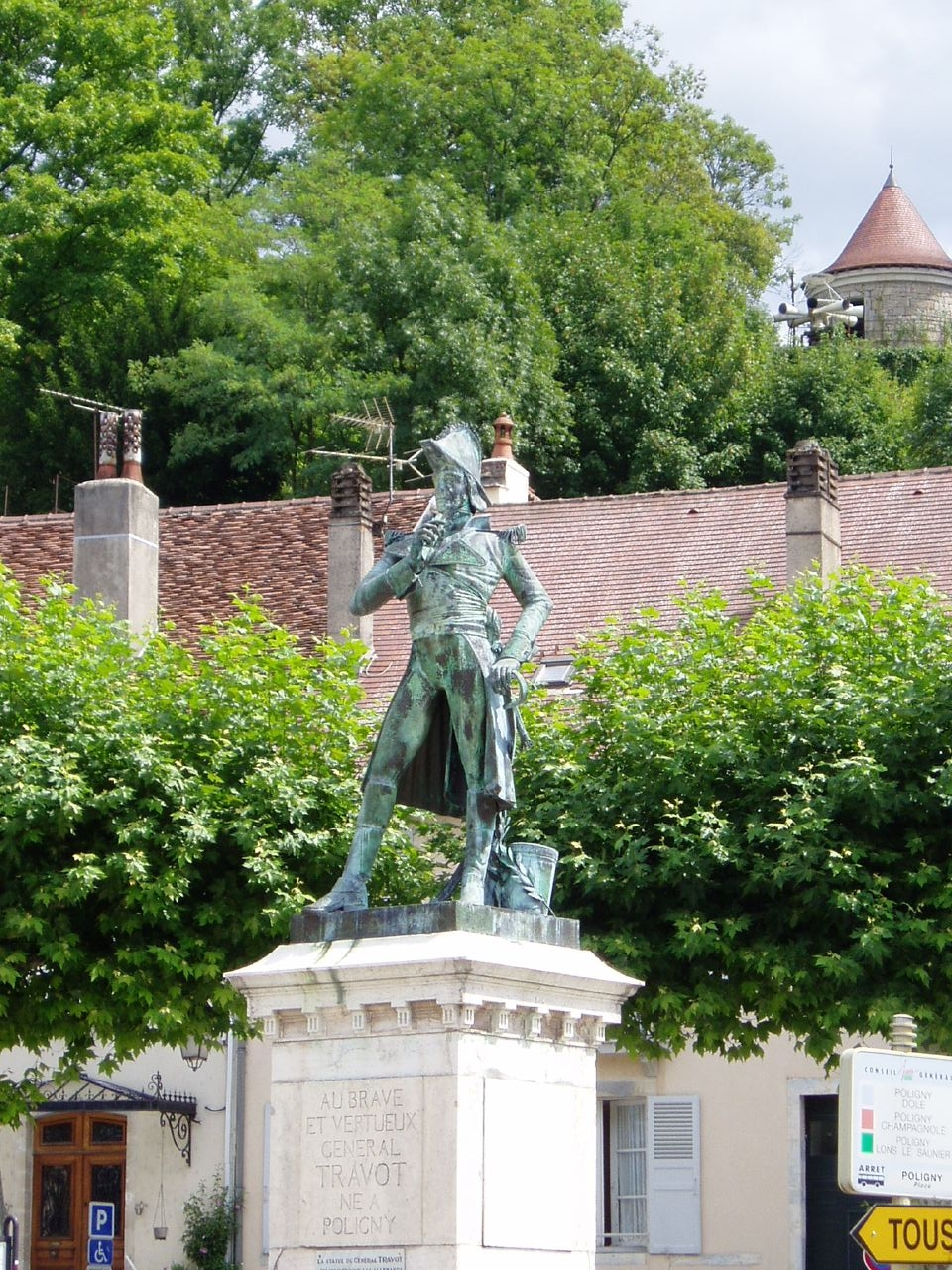 Statue du général Travot, Poligny, Jura, France. Place Travot